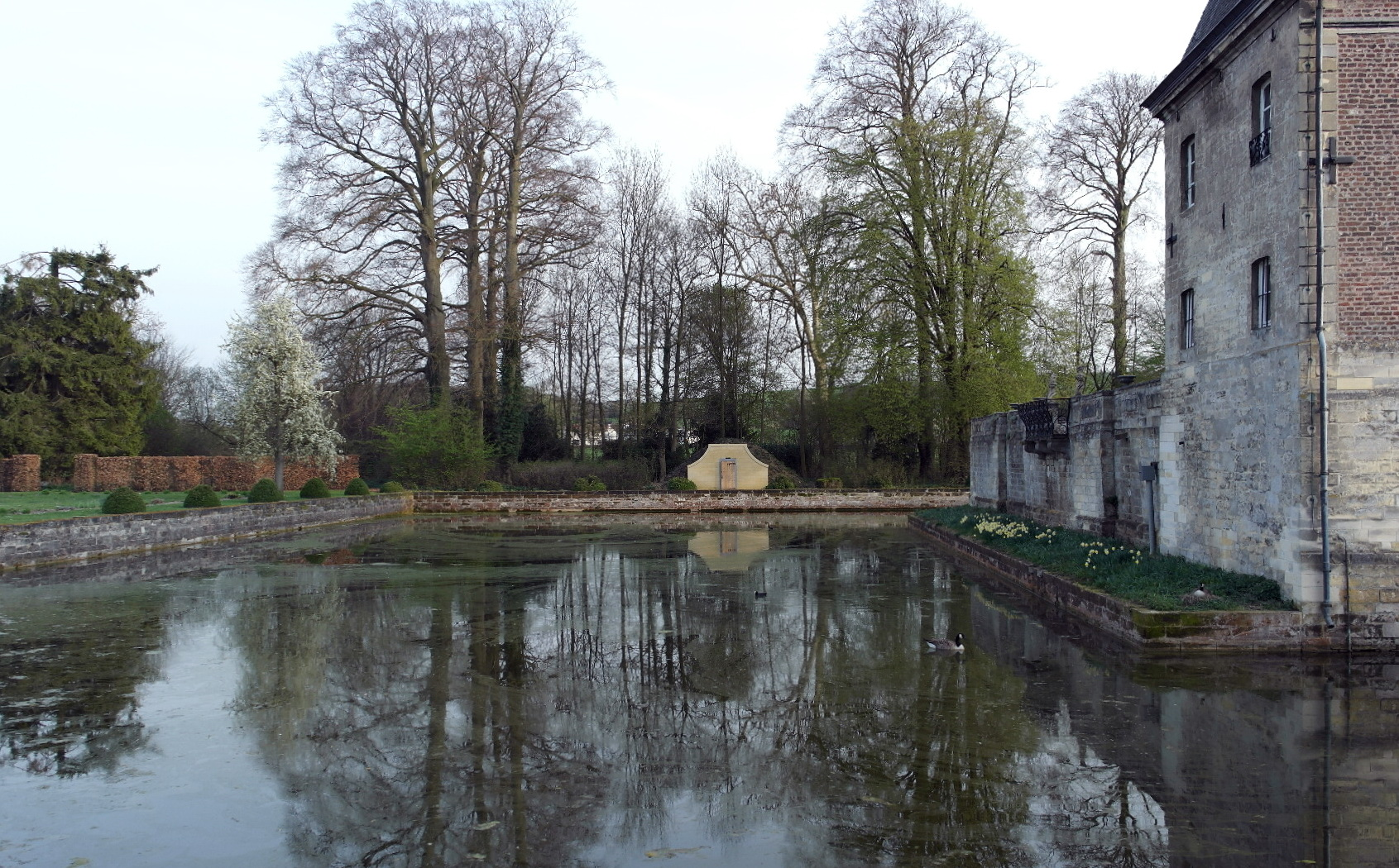 Oud-Valkenburg, Limburg, the Netherlands. View of the moat of Genhoes castle.